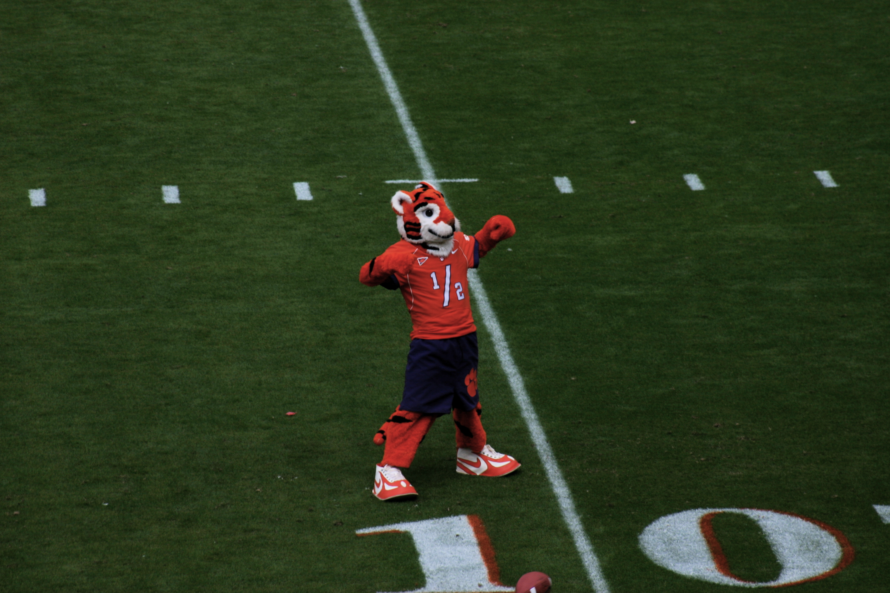 "The Cub" mascot at a Clemson Tigers football game vs. Temple in 2005.